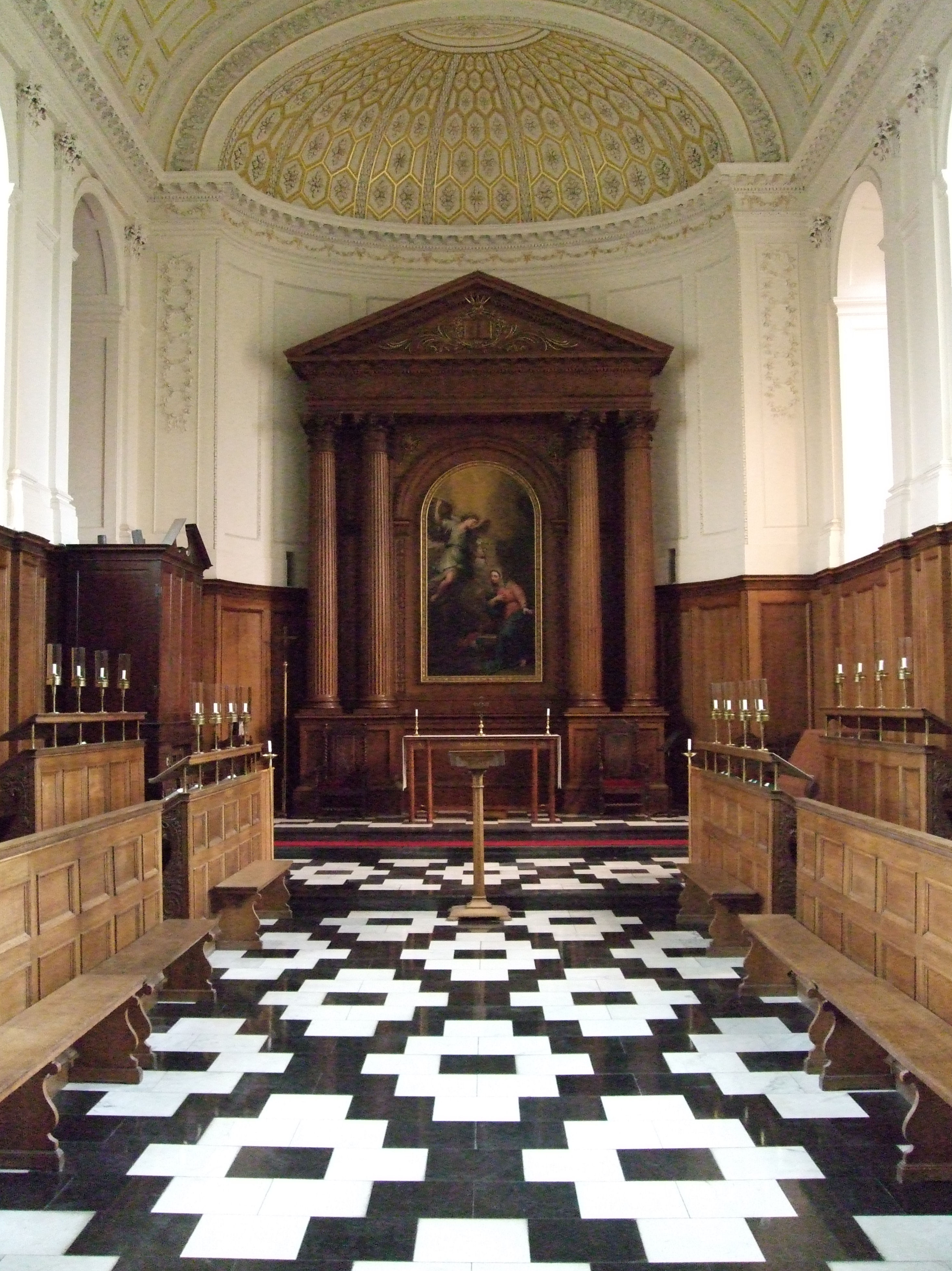 The college's chapel was built in 1763 and designed by James Burrough. Its altarpiece is Annunciation by Cipriani.